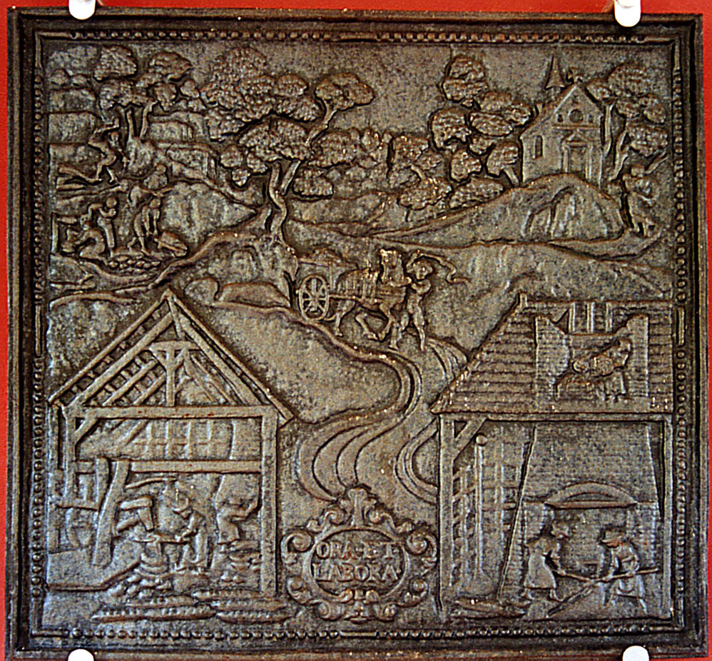 This image shows the copy of a cast-iron stove plate, made around 1700 in the Lahn-Dill-region in Germany.